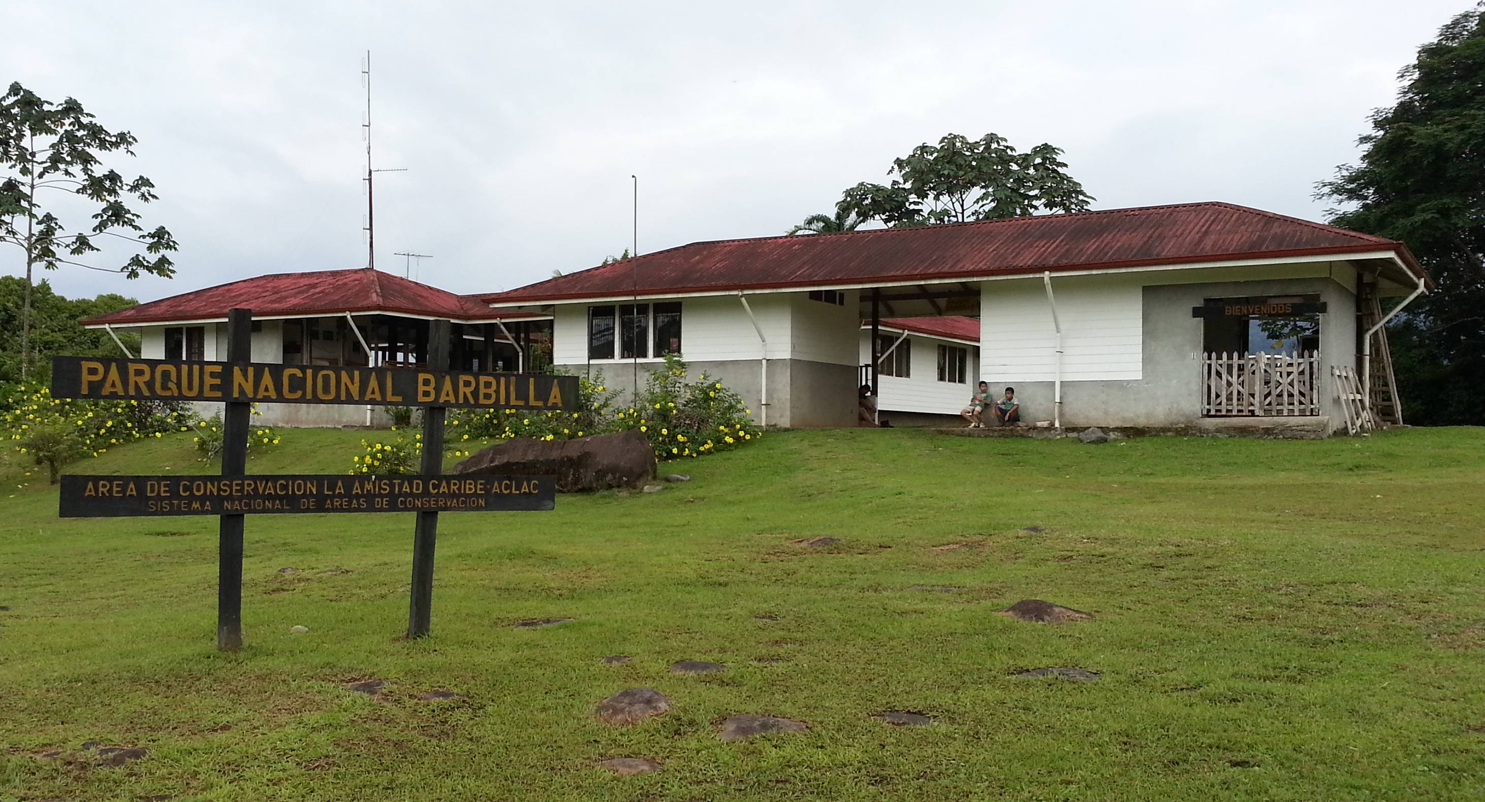 Barbilla Natl Park headquarters. My pic, 9/2013.